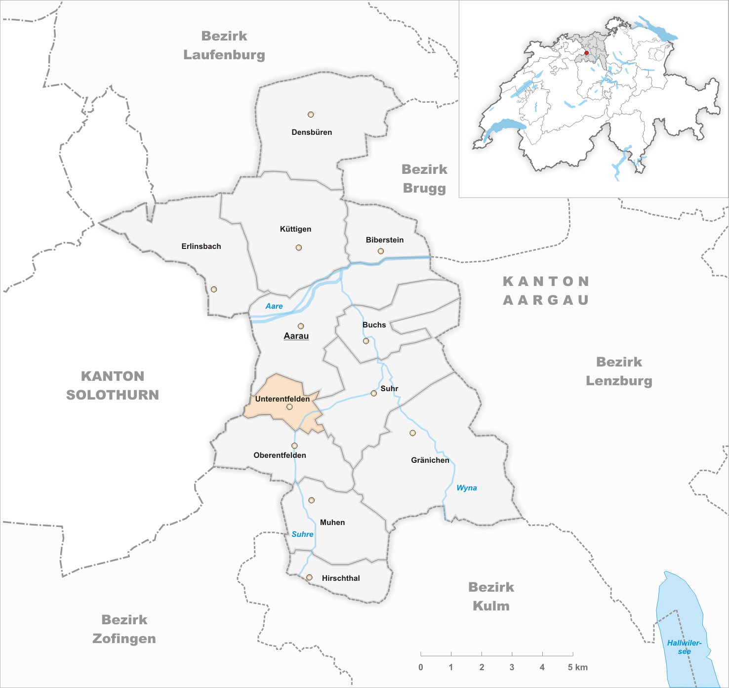 Municipality Unterentfelden